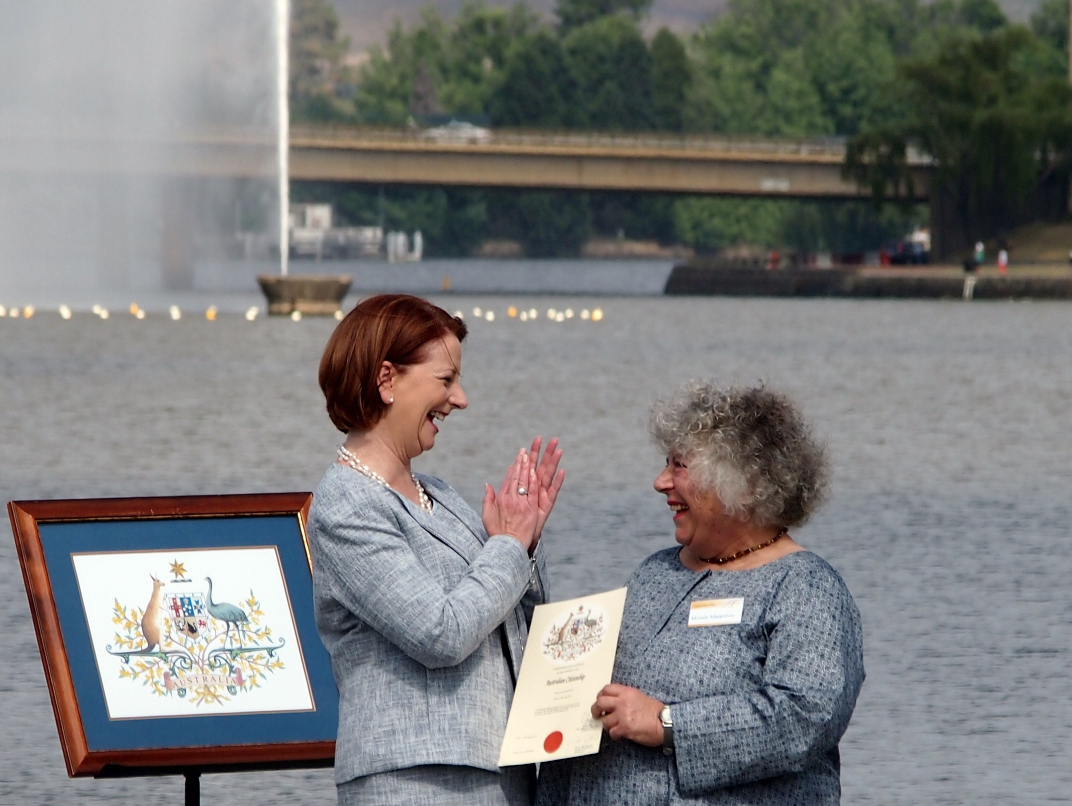 Miriam Margolyes shortly after being presented with her Australian citizenship certificate by Prime Minister Julia Gillard during the 2013 National Flag Raising and Citizenship ceremony